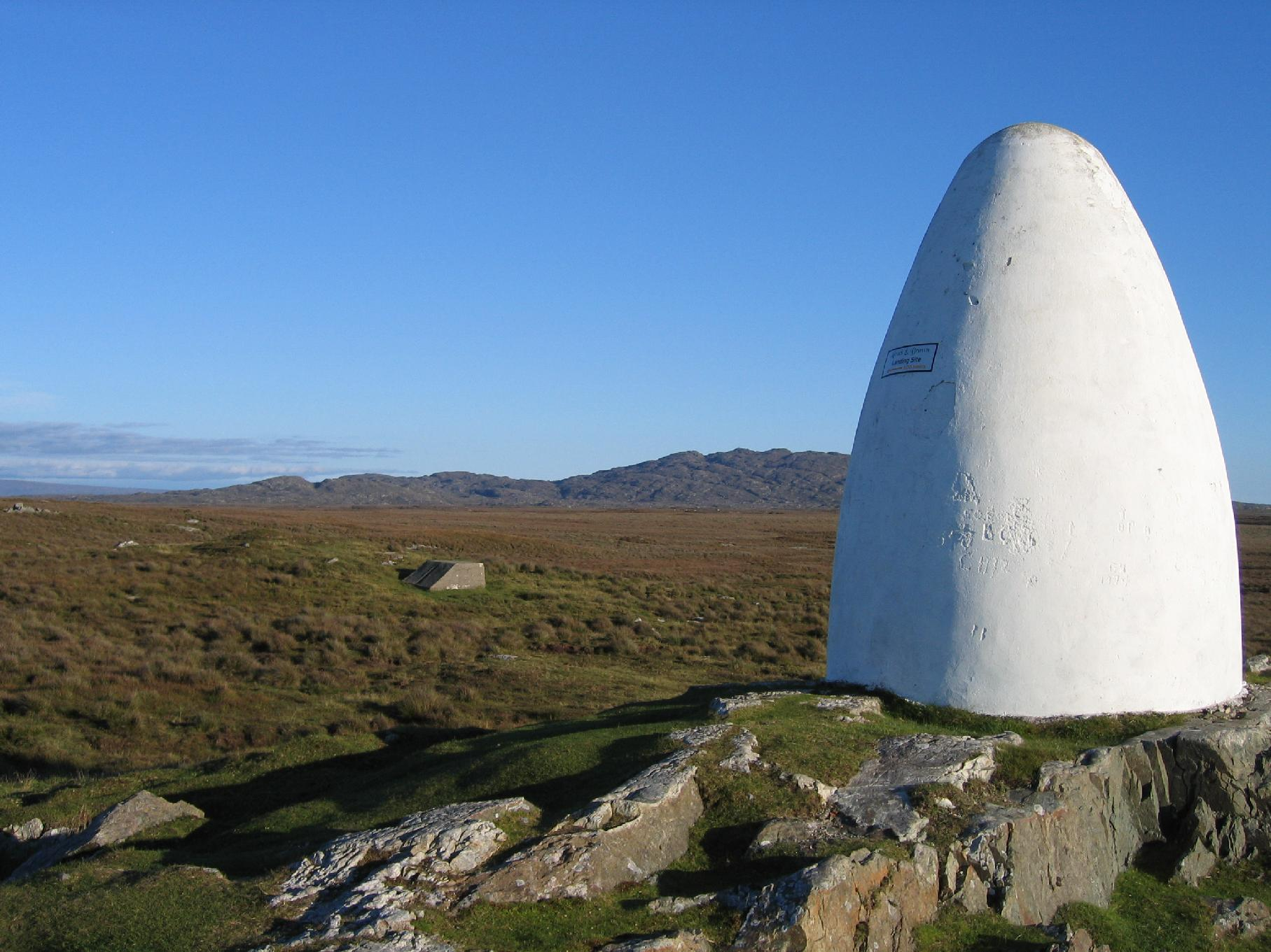 The landing site of the pioneering transatlantic flight of Alcock and Brown, and adjacent memorial cairn. The first non-stop transatlantic flight crash-landed four kilometres south of Clifden, County Galway, Ireland on June 15 1919. There is a memorial cairn around four metres in height on the site of Marconi's first transatlantic wireless station, five hundred metres from the crash site. The inscription on the cairn reads "Alcock and Brown, landing site, 500 meters" with an arrow pointing towards the bog in the centre of the picture.